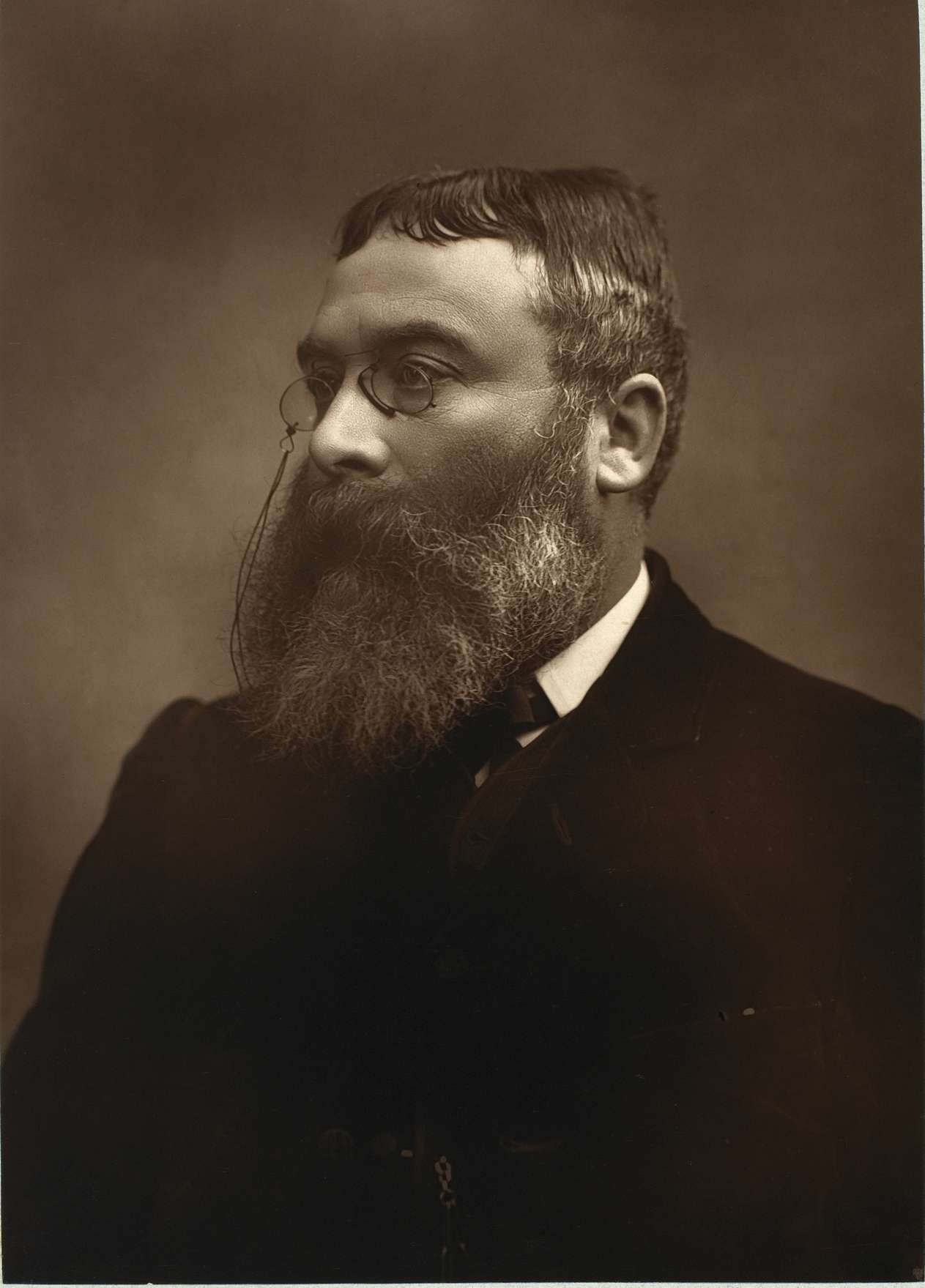 Woodburytype of Walter Besant